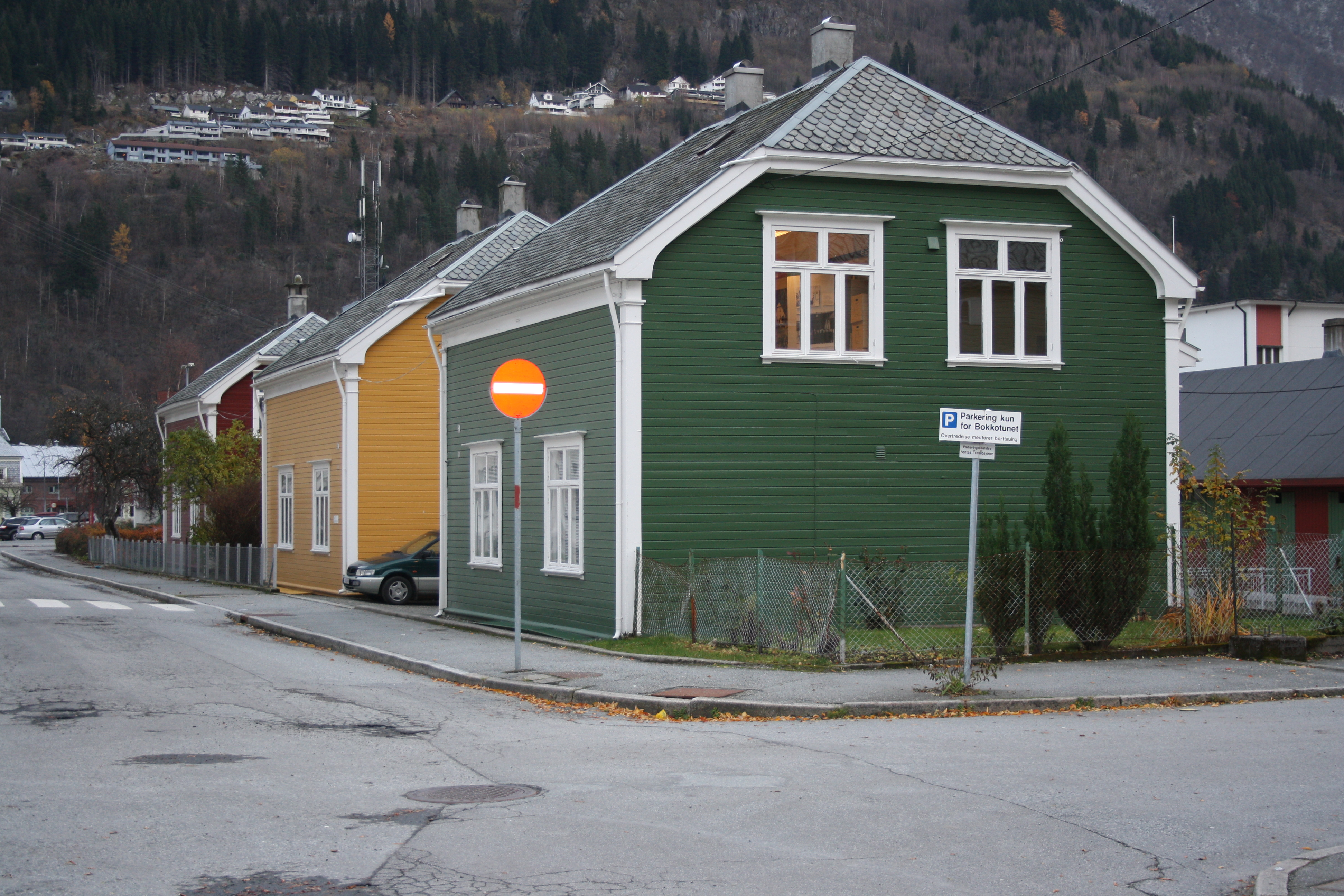 Folgefonngata 9, 11 and 13. Workers housing in Odda, Norway. Today part of the Norwegian Museum of Hydro Power and Industry.